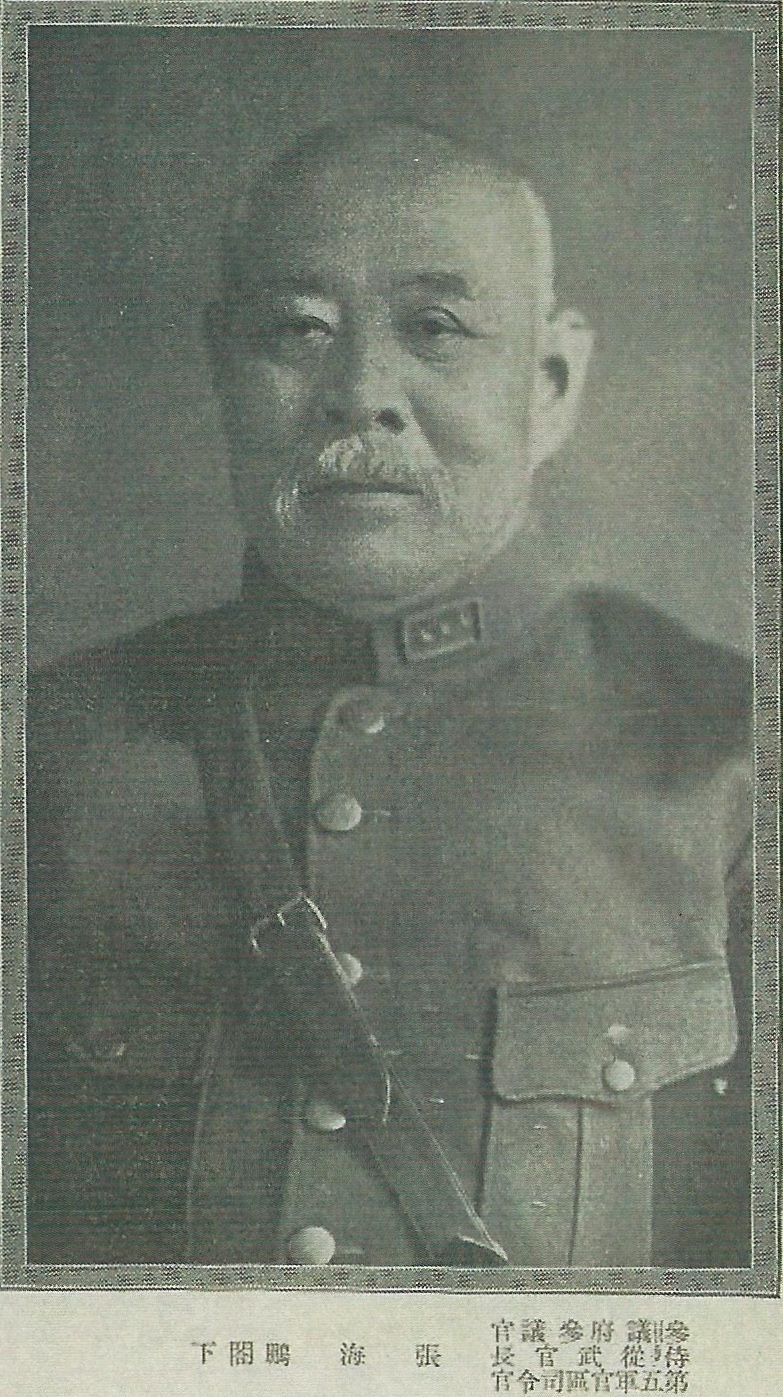 Zhang Haipeng (Chang Hai-p'eng) (1867 - 1949)